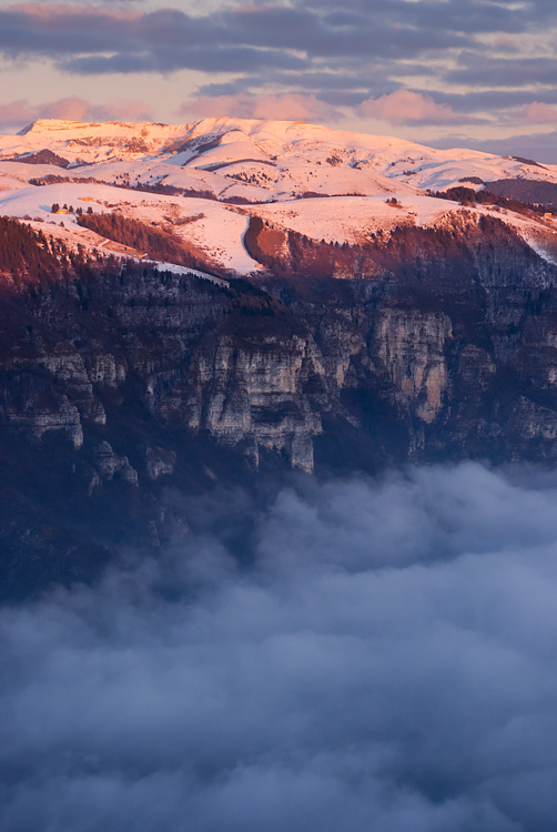 The Grappa Massif taken from Asiago Plateau